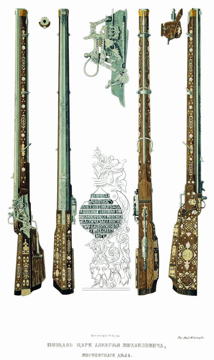 Rifle pishchialь of Alexei Mikhailovich Romanov. Made in 1654, Russia, master Grigory Viatkin.